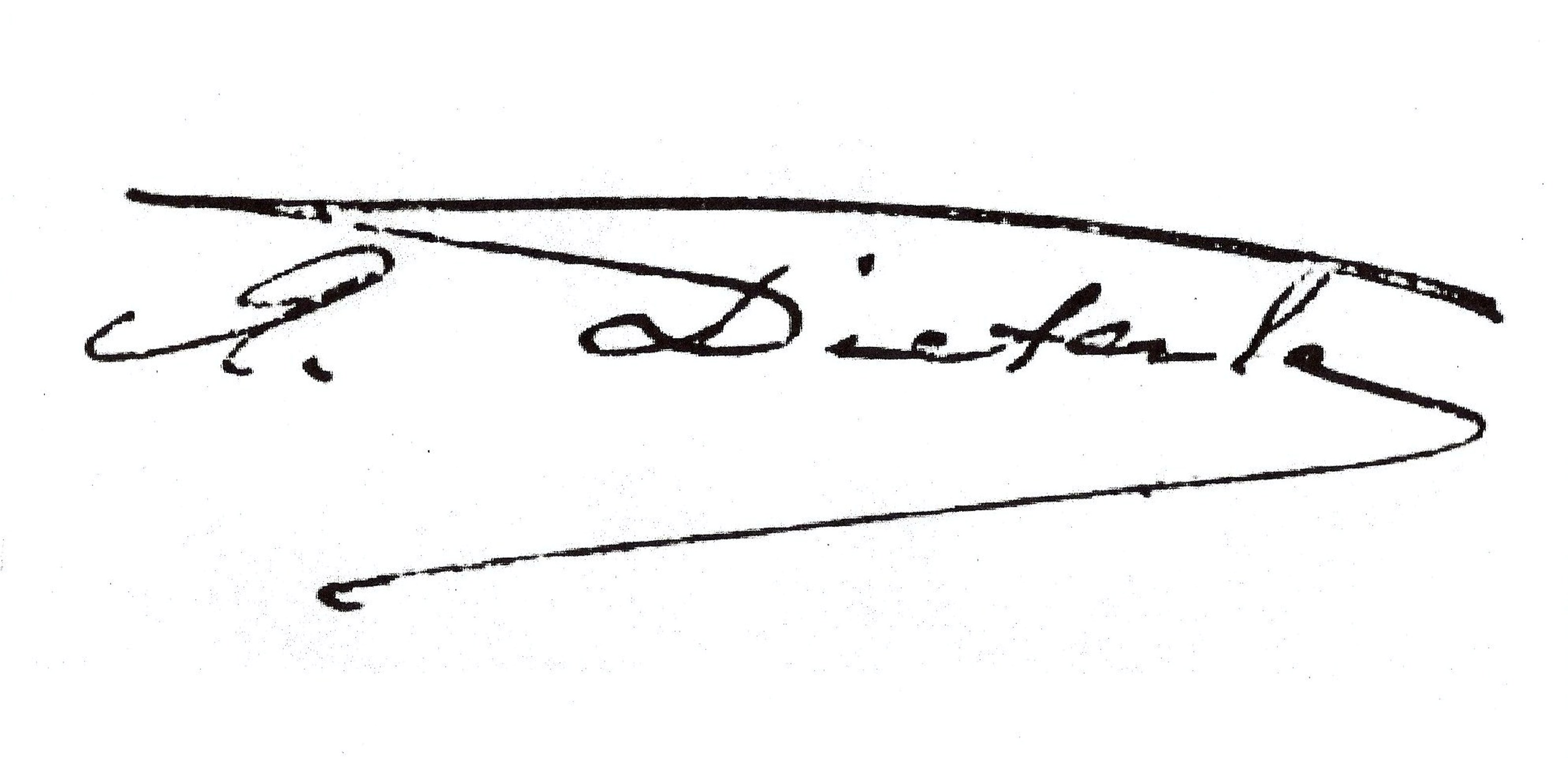 Signature of Amélie Diéterle (1871-1941), French theatre actress.